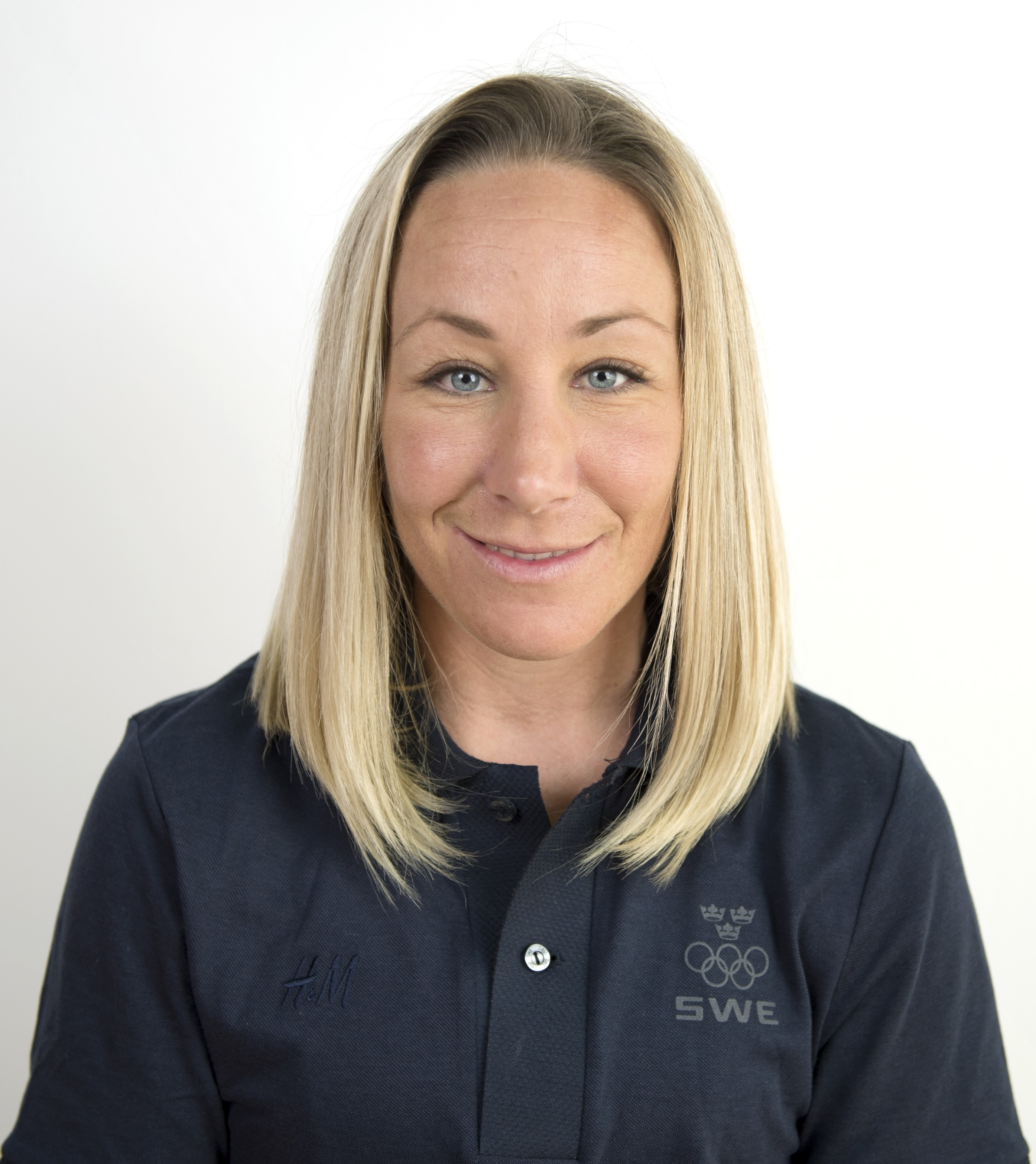 Swedish Olympic cyclist Sara Mustonen.